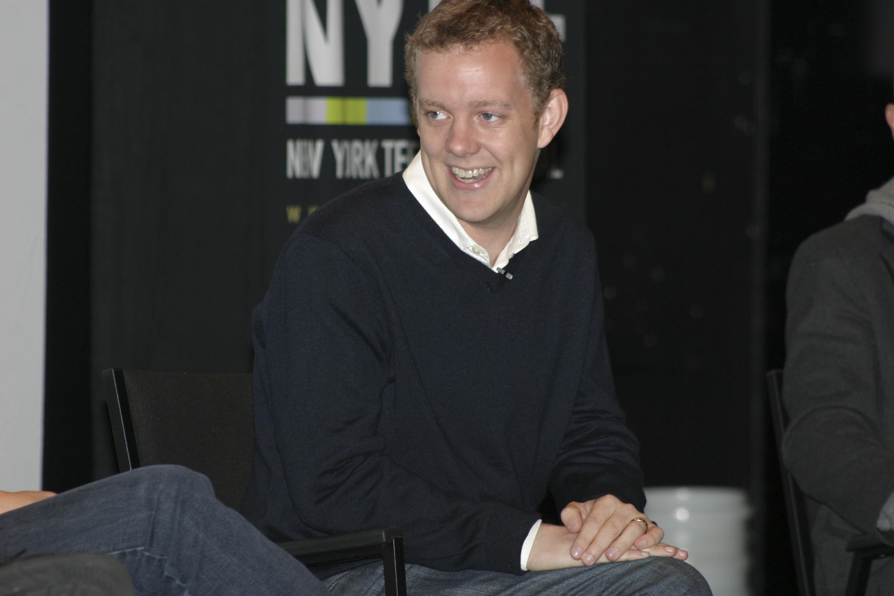 Matt Hubbard at the 2009 NYTVF. © Rubenstein, photographer Martyna Borkowski